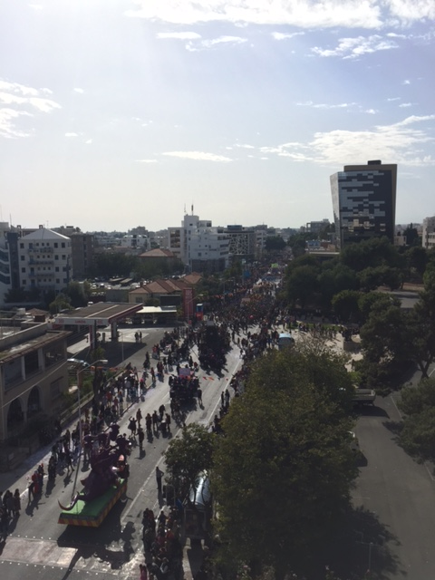 Limassol Parade on Makariou from rooftop